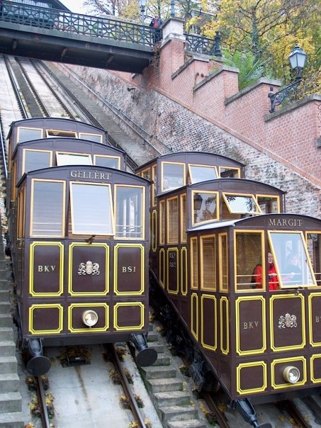 Budapest Castle Hill Funicular (Budavári Sikló)